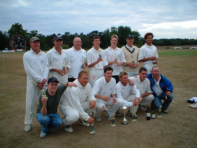 I am the author of this photograph, which I took on 31st August 2003.